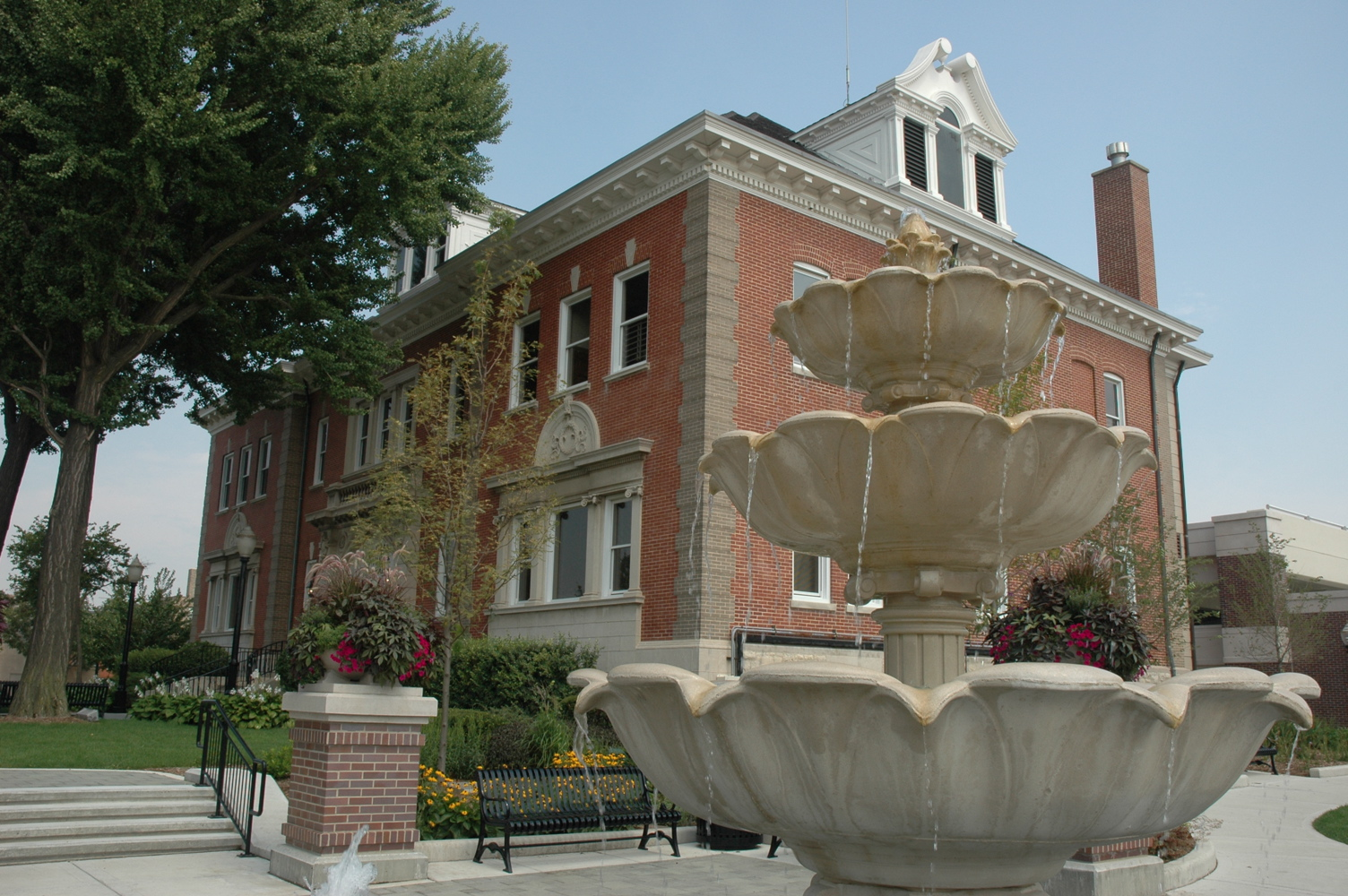 LaGrange Village Hall (former Lyons Township Hall), with running fountain in foreground, in Illinois